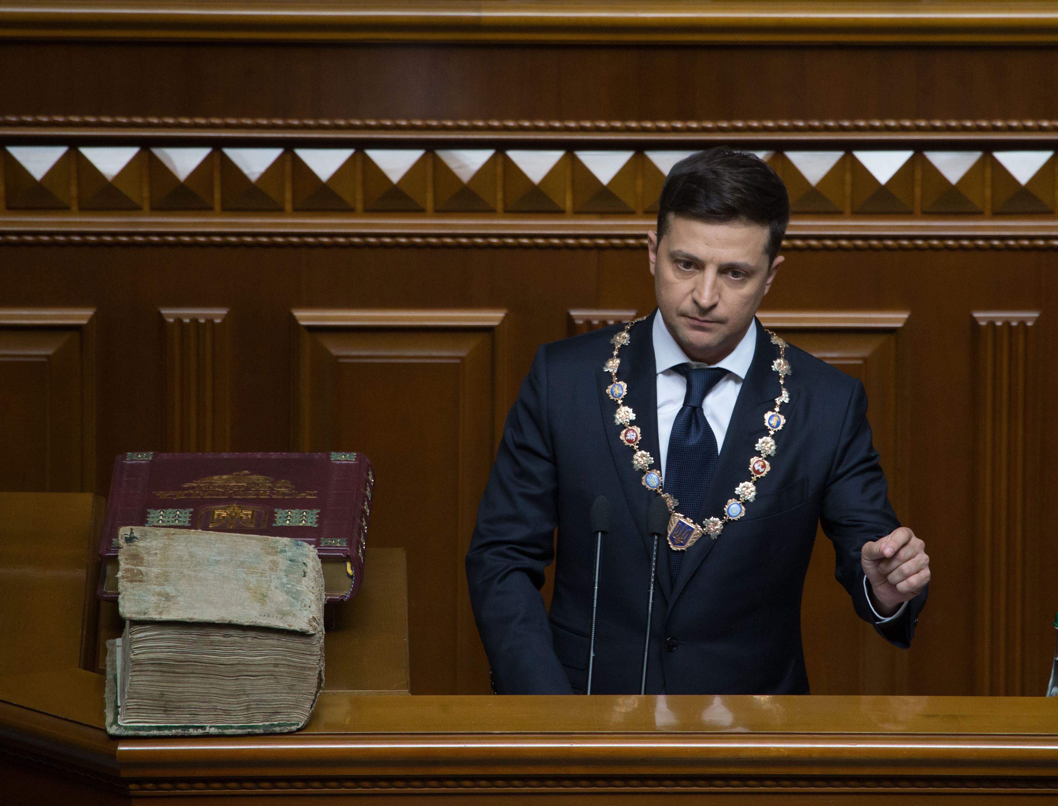 Volodymyr Zelensky presidential inauguration, 20th May 2019